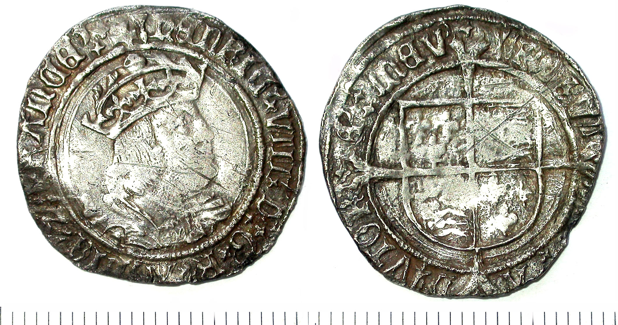 A groat of Henry VIII, 2nd coinage